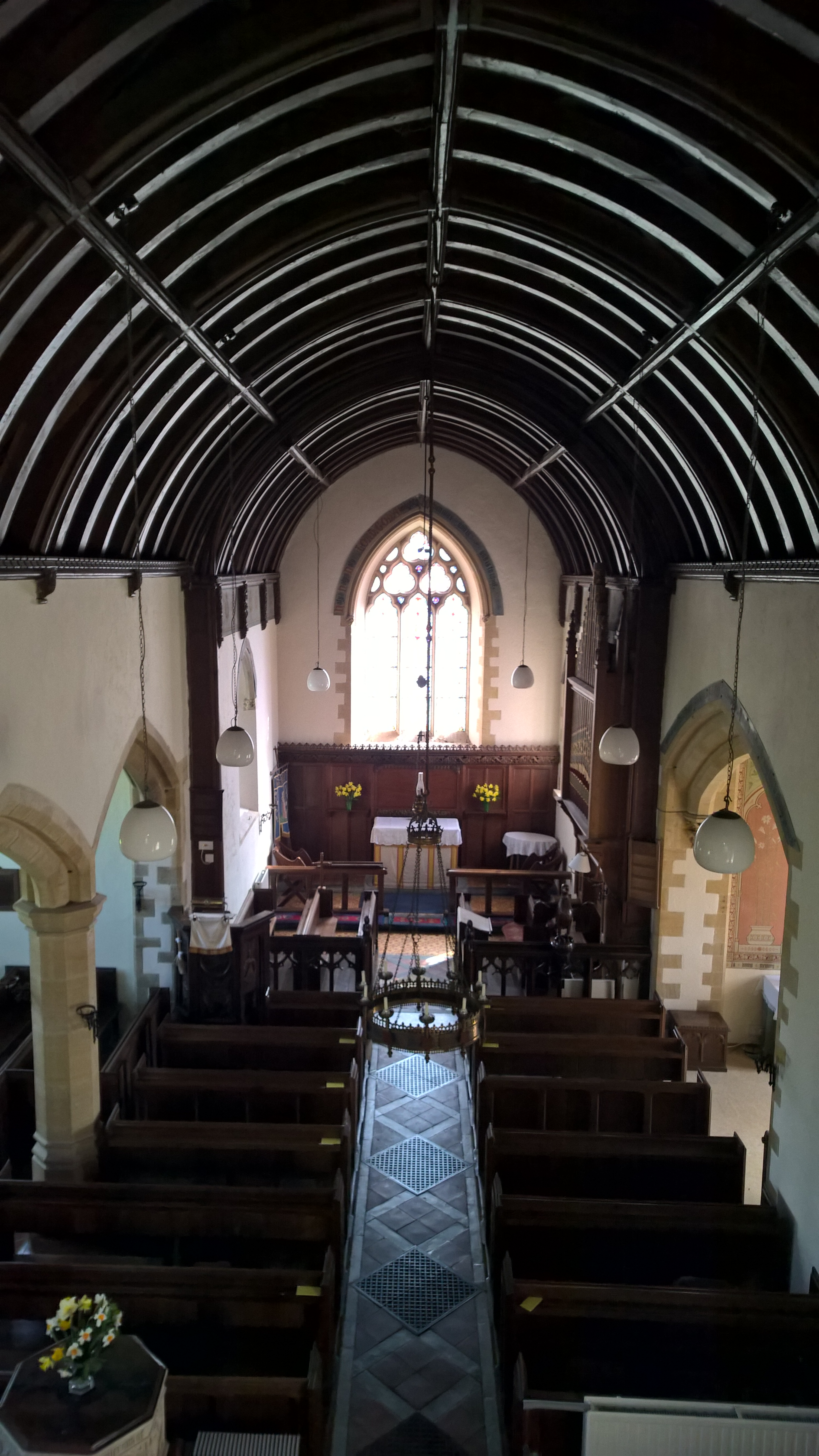 Interior of All Saints Church, Huntsham, Devon, England